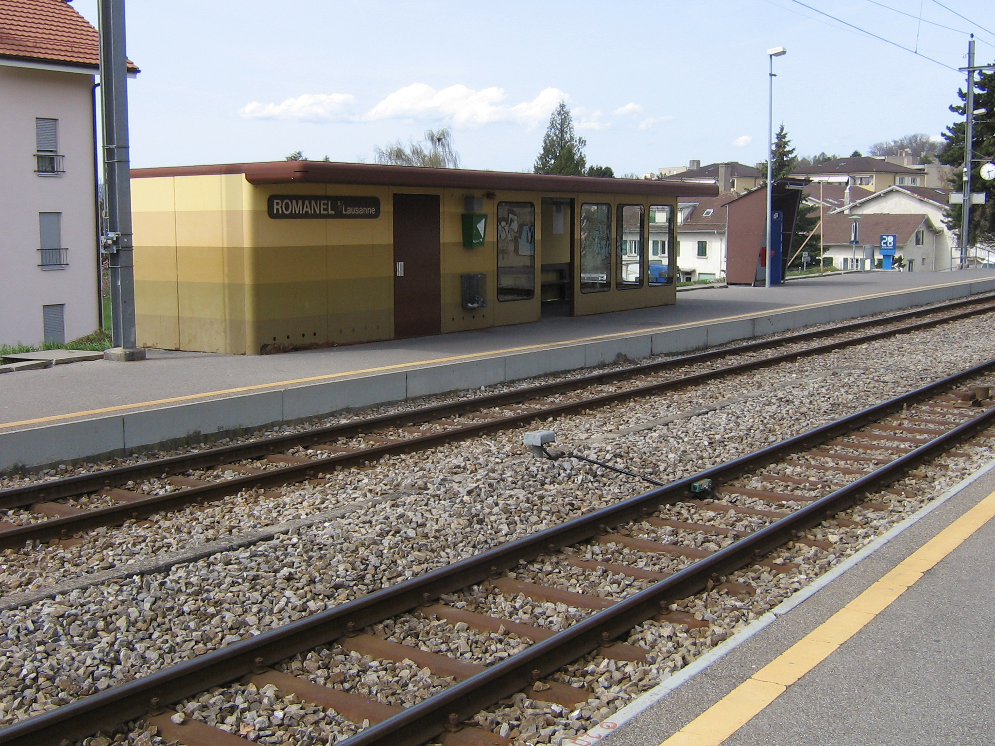 Main building of the railway station of Romanel-sur-Lausanne on platform direction Lausanne.